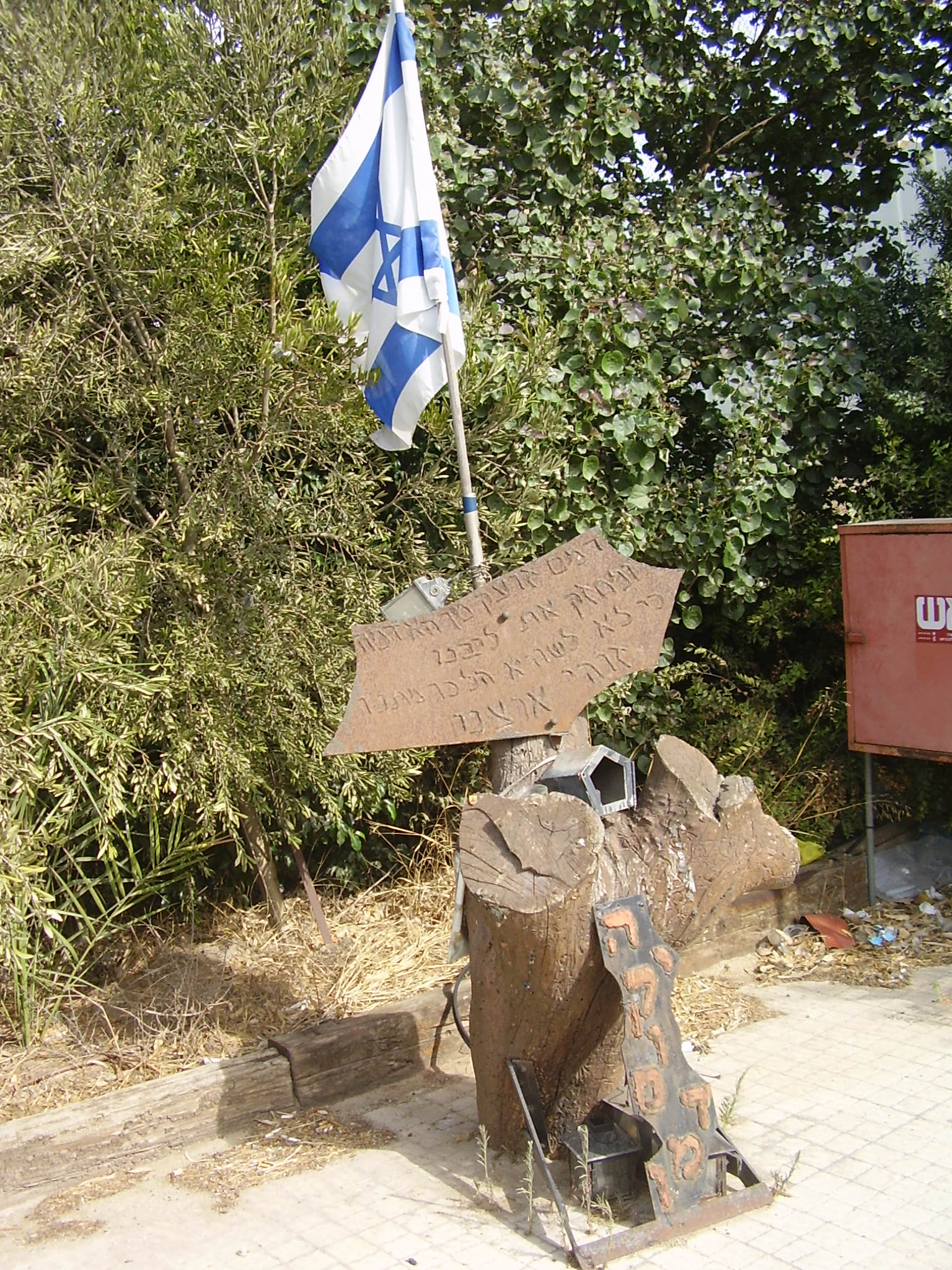 monument for hhe victims of the terror attack in meggido junction - 5/6/2002.